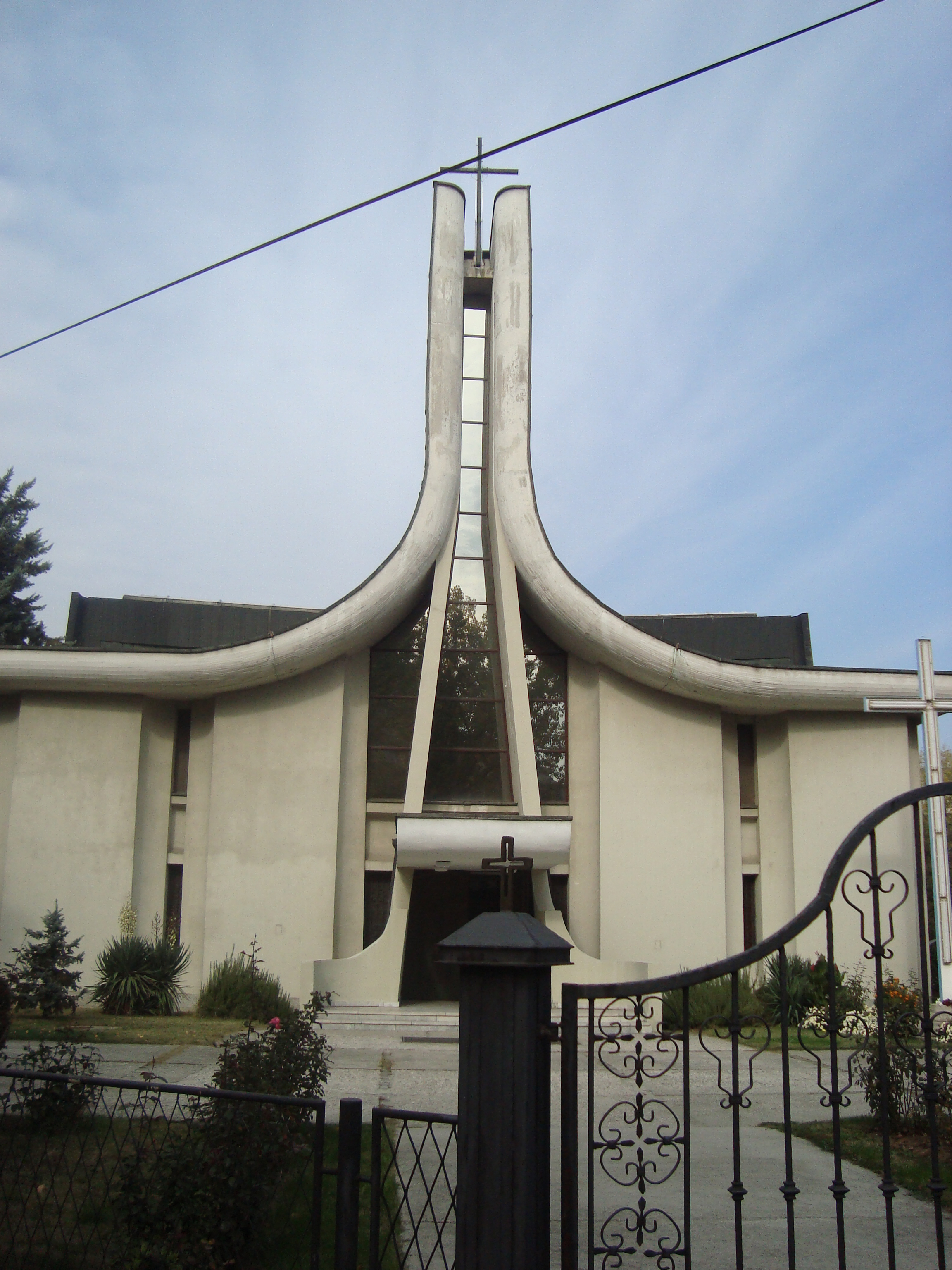 The Catholic Church in Skopje, Macedonia.